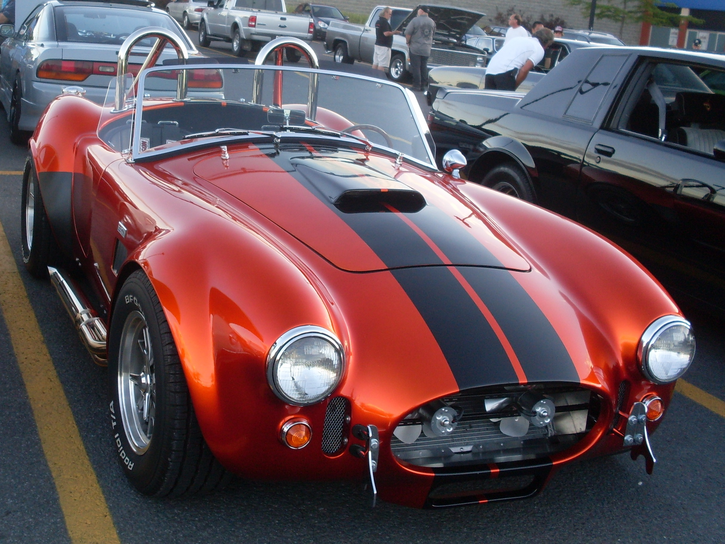 AC Cobra photographed in St. Constant, Quebec, Canada at Auto classique St-Constant 2013.